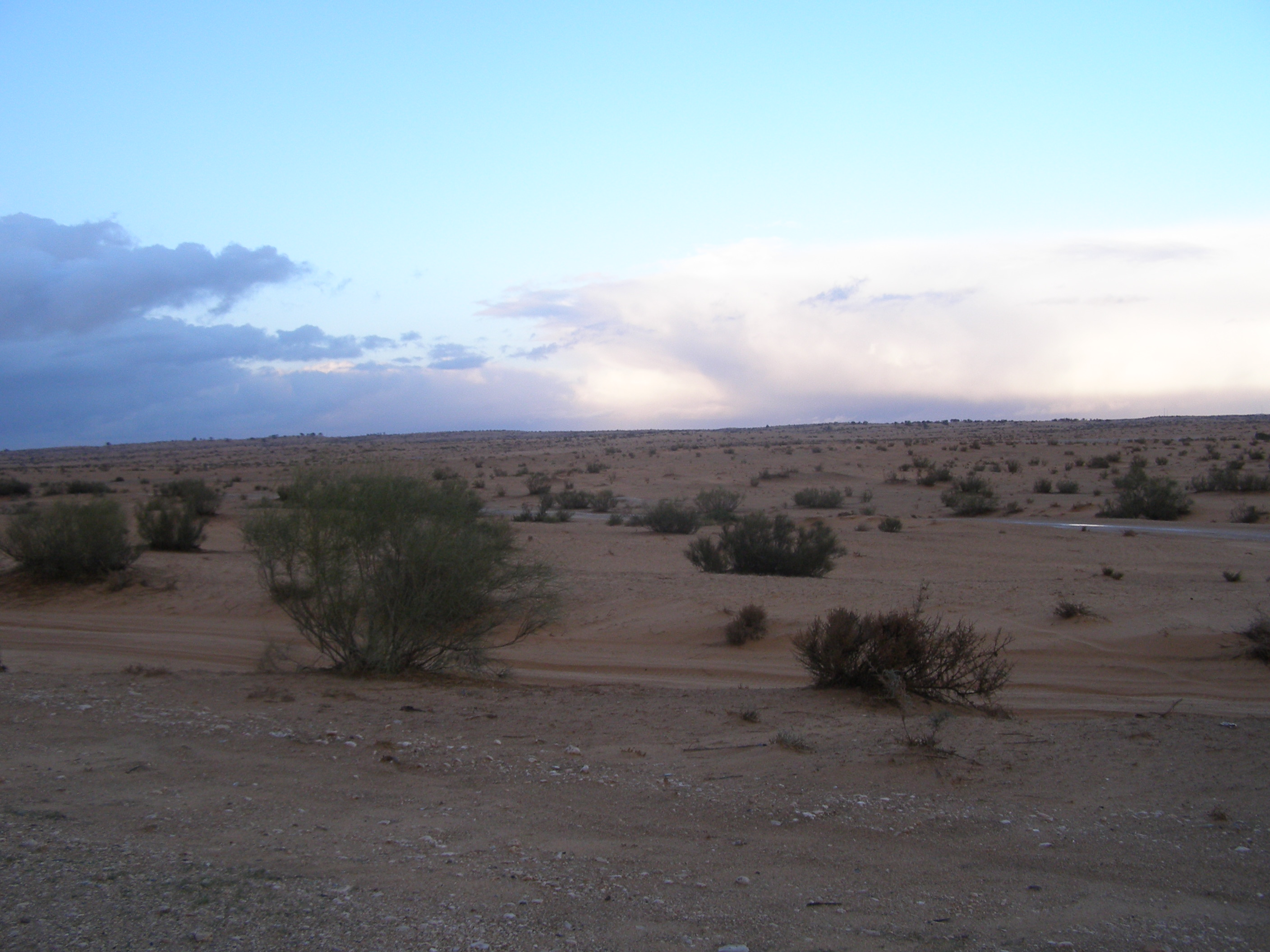 Winter day in the Negev Heights